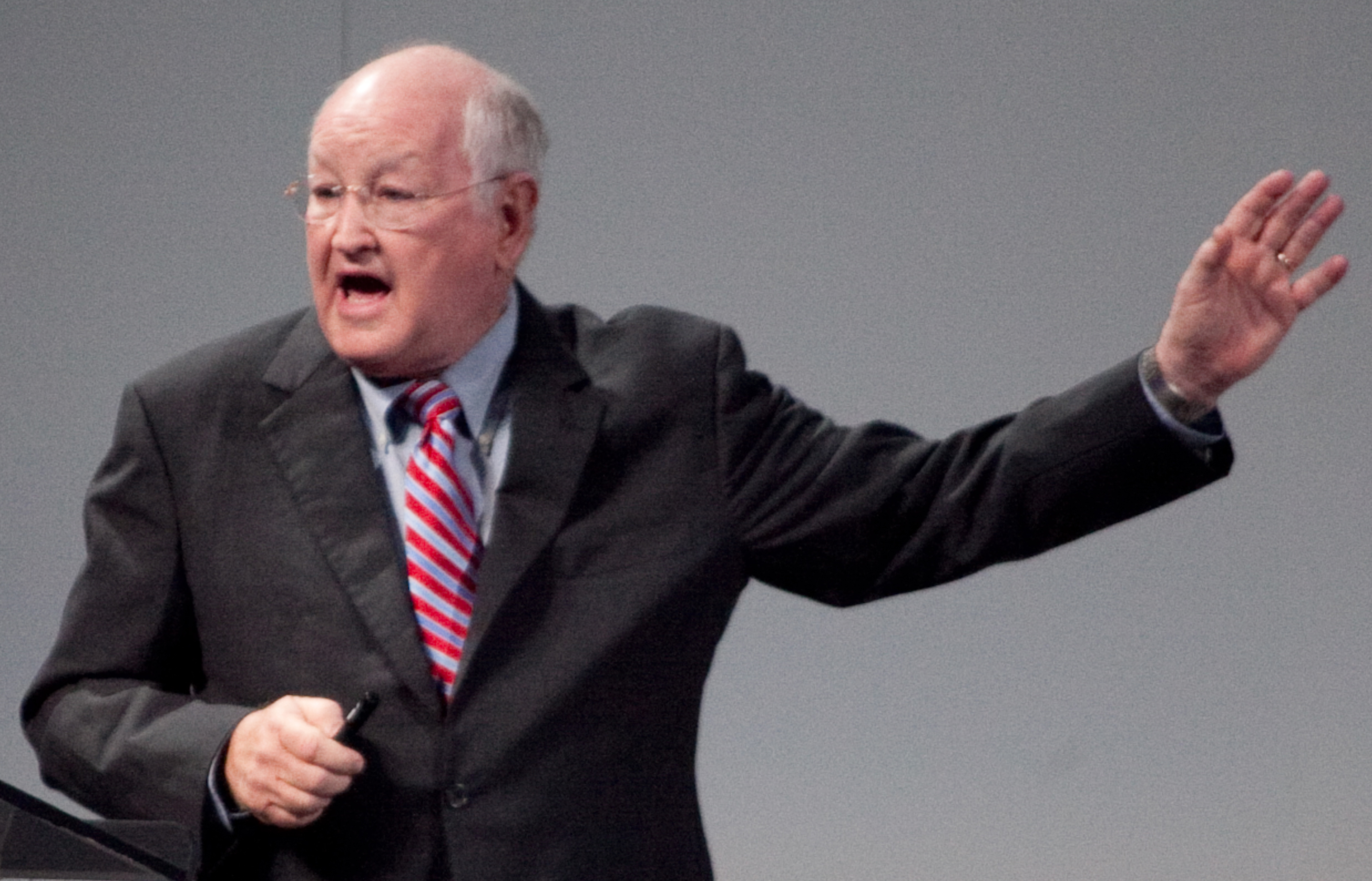 James Maas speaking at The UP Experience 2010 in October 2010.